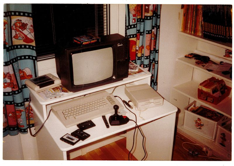 Commodore 64 in boy's room in Finland